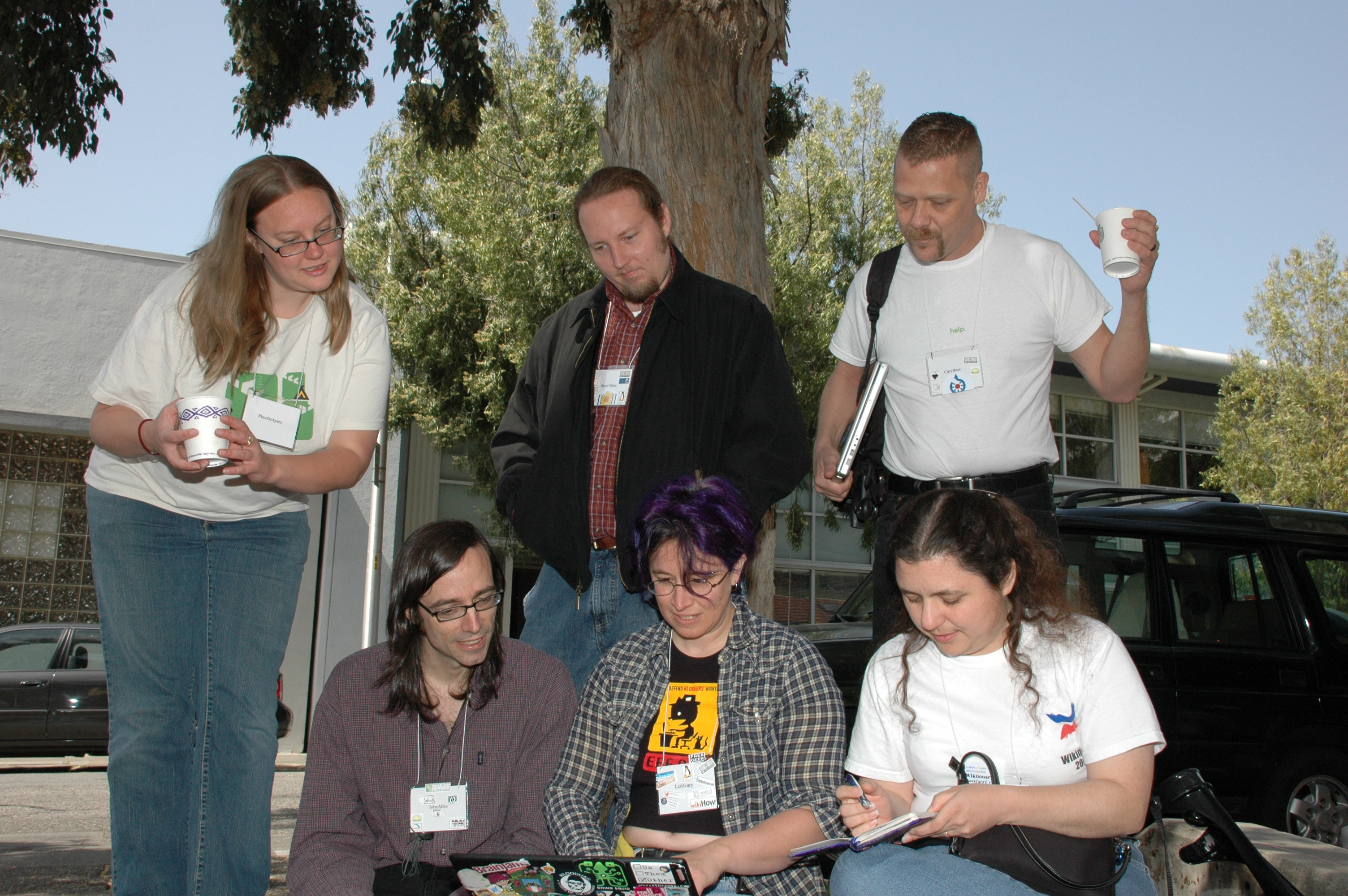 RecentChangesCamp 2008, Palo Alto, CA. Day 2; various participants (including Brion Vibber and Cary Bass from Wikimedia Foundation) looking at demonstration of Jottit Wiki.